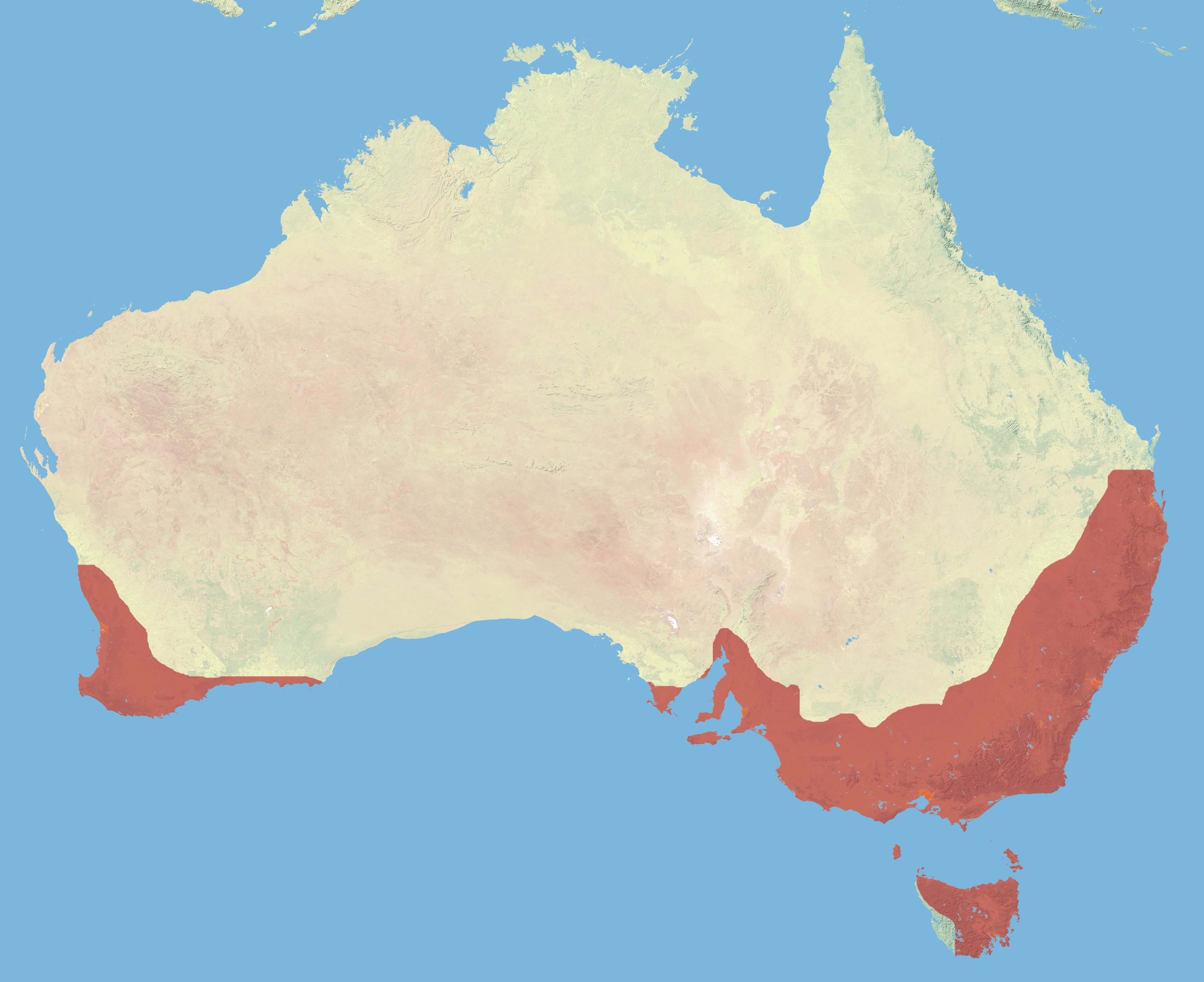 The Distribution of the Scarlet Robin According to the Atlas oif Living Australia